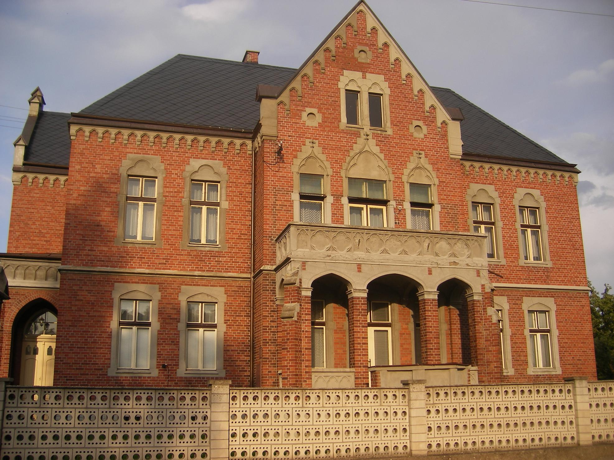 Catholic vicarage in Sudice